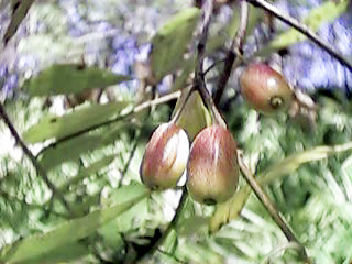 The Tupelo, ogeche fruit. Referred to as the "Ogeechee Lime".